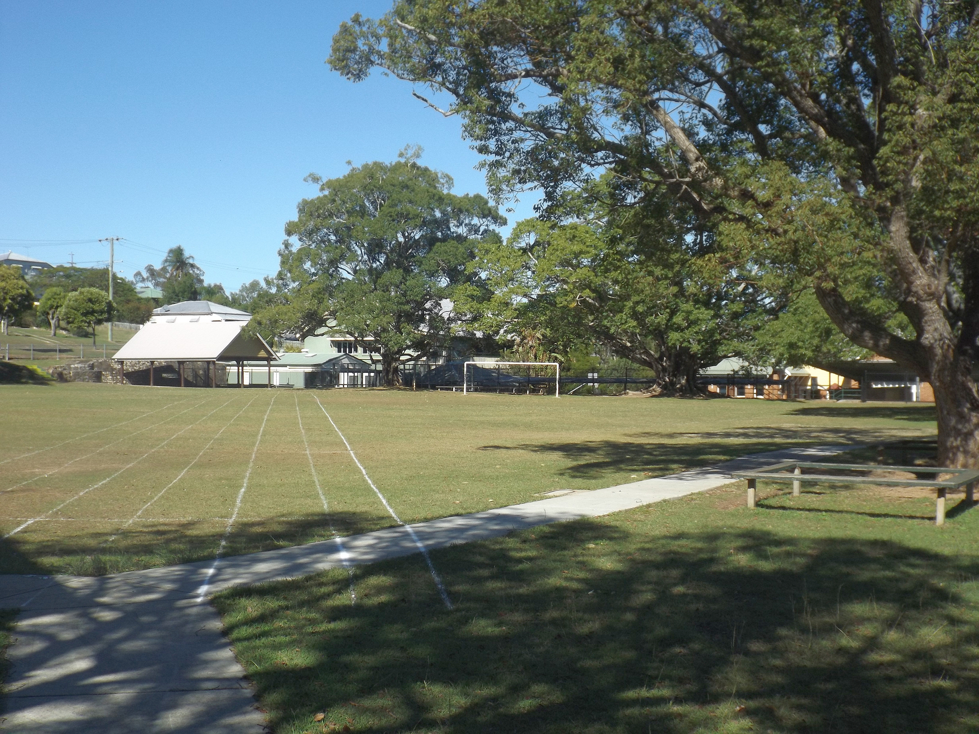 Photo of Ipswich West State School oval at West Ipswich, City of Ipswich, Queensland, Australia.